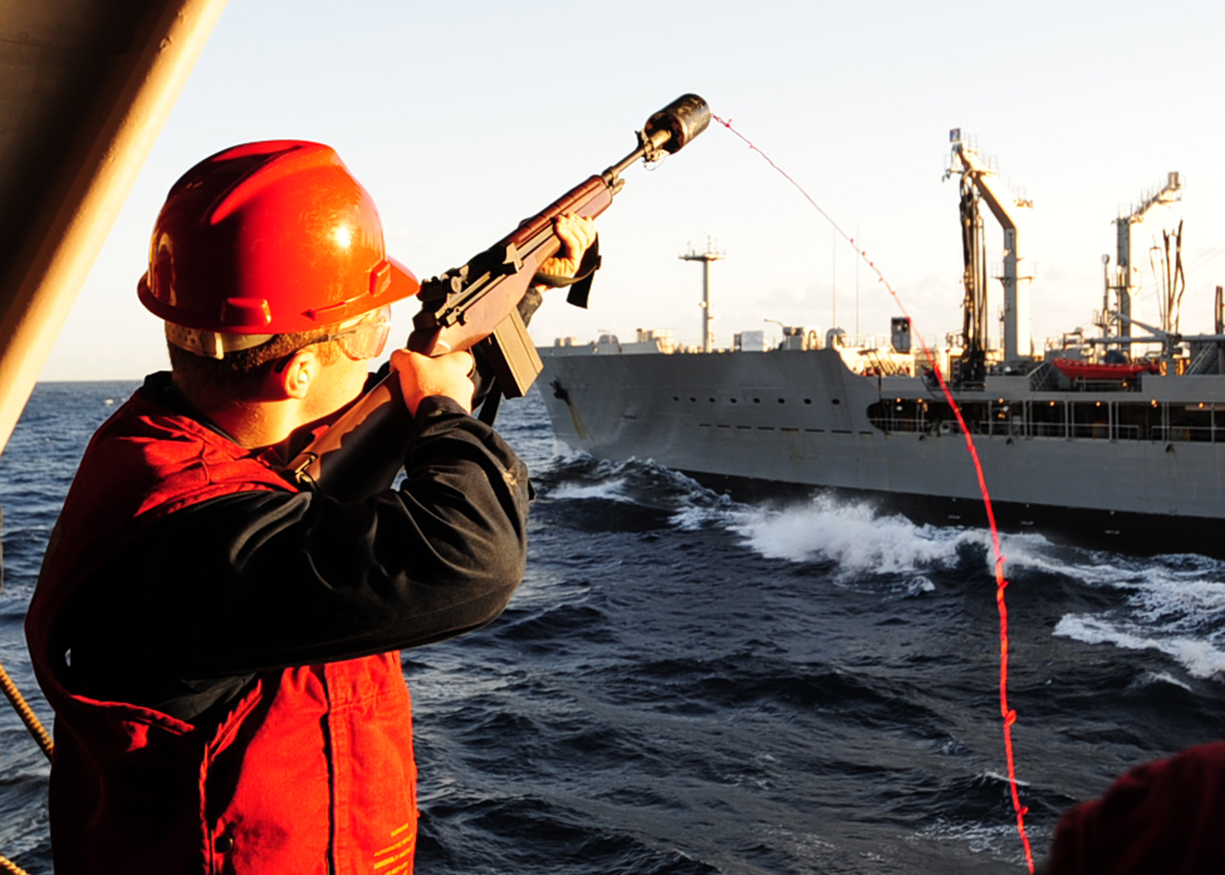 West of the Korean Peninsula (Nov. 27, 2010) Airman Sean Nugent shoots a shot-line to the Military Sealift Command's Fleet Replenishment Oiler USNS Tippecanoe (T-AO 199) as it pulls alongside USS George Washington (CVN 73) during a replenishment at sea. George Washington is in the waters west of the Korean peninsula in preparation of a training exercise with the Republic of Korea (ROK) Navy. This exercise reinforces U.S. commitment to the ROK, regional partners and to freedom of movement throughout the western Pacific. (U.S. Navy photo by Mass Communication Specialist Seaman Apprentice Alysia Hernandez/Released)